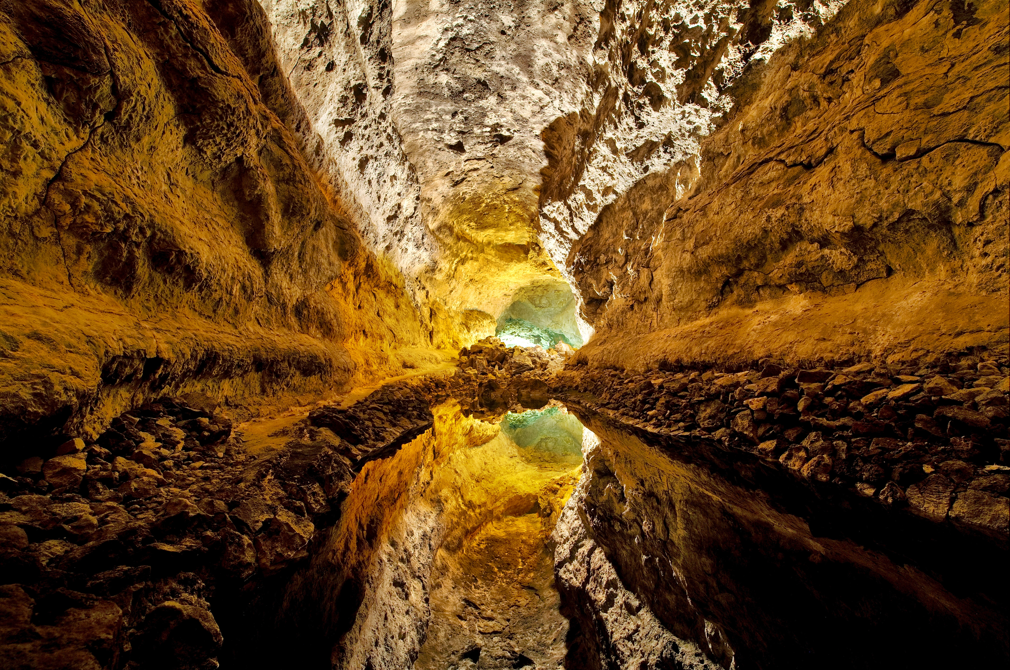 Cueva de los Verdes, Canary Islands, Spain. Cave lake in lava tunnel with optical illusion.